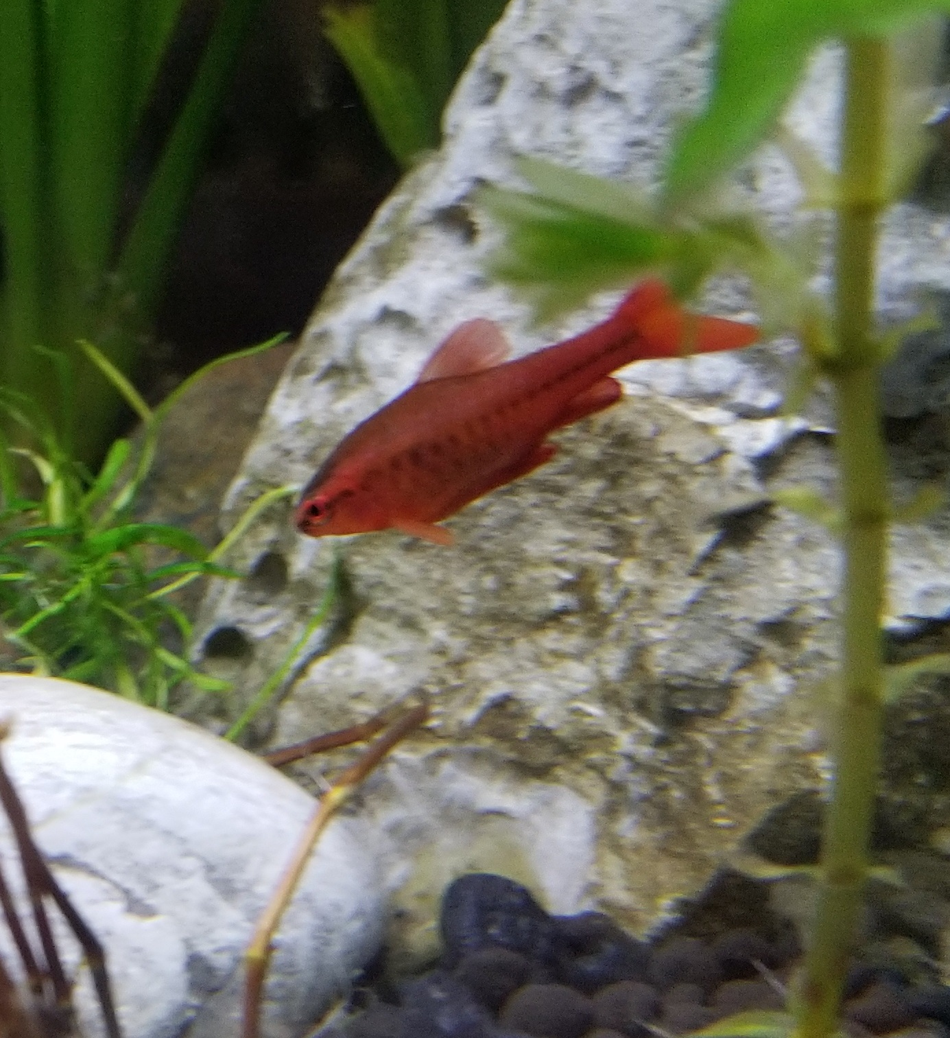 Mature male cherry barb in aquarium tank